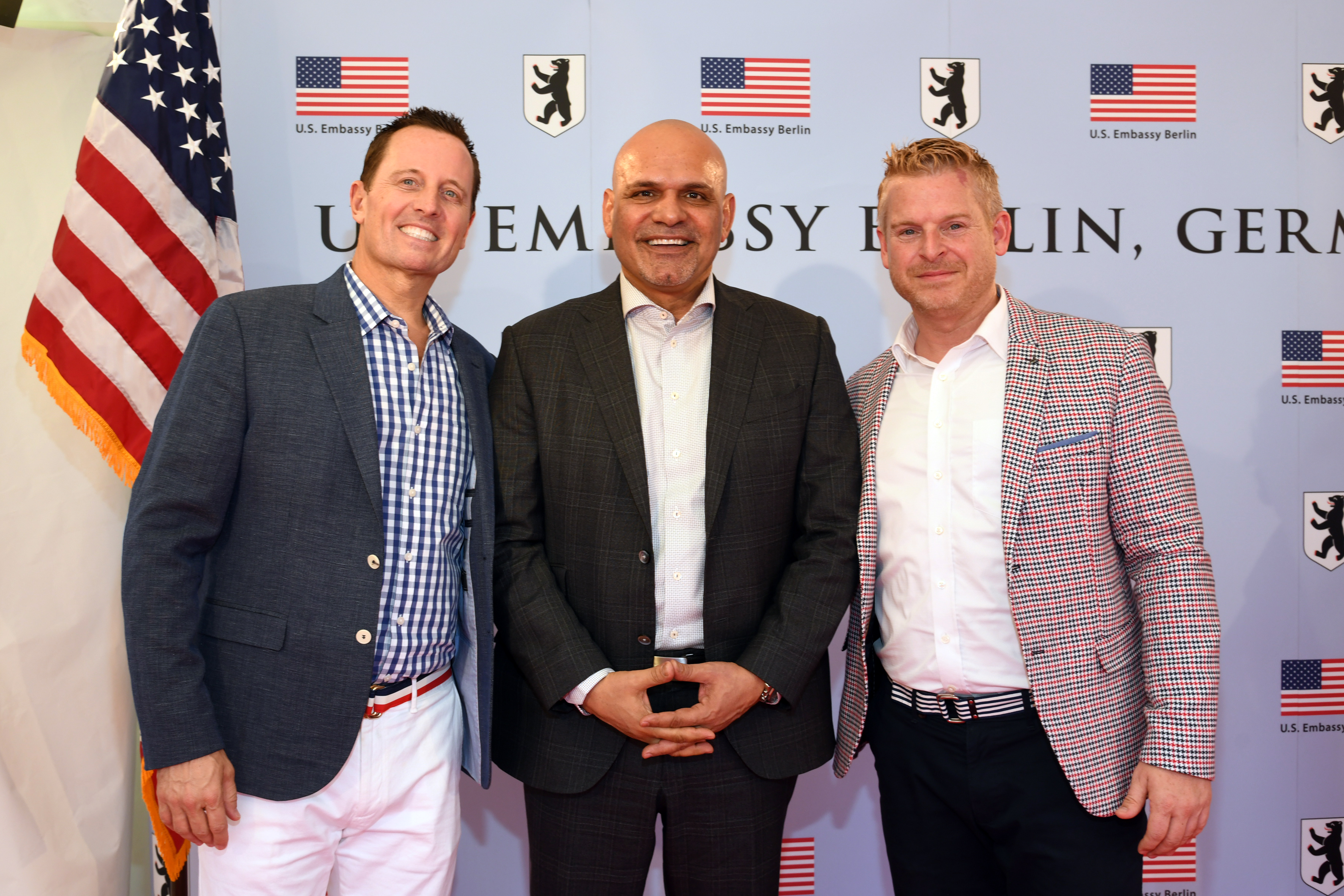 L to R: Richard Grenell, Ali Abdulla Al Ahmed, & Matt Lashey, Sommerfest der US Botschaft Berlin, 4th of July 2018